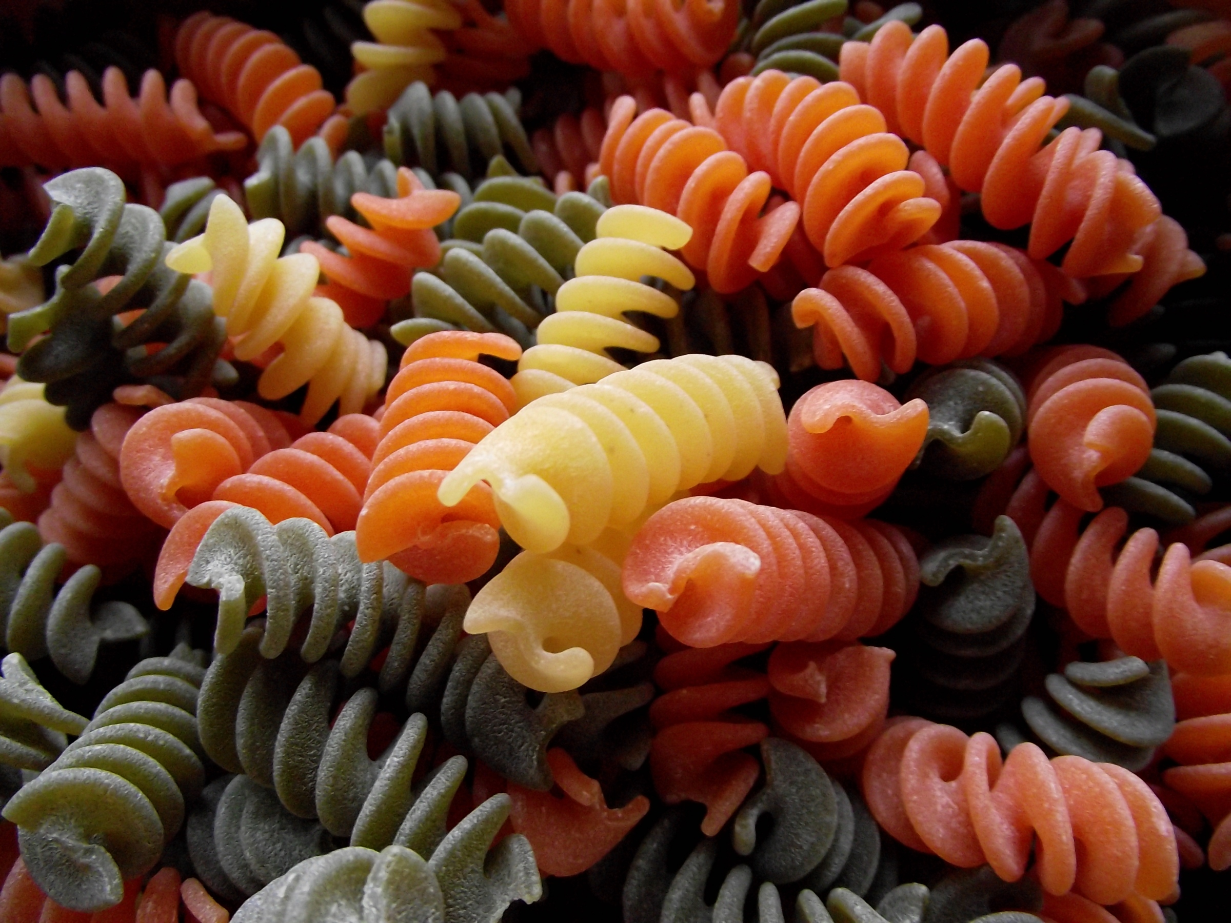 Photo of fusilli/rotini tricolore - close up